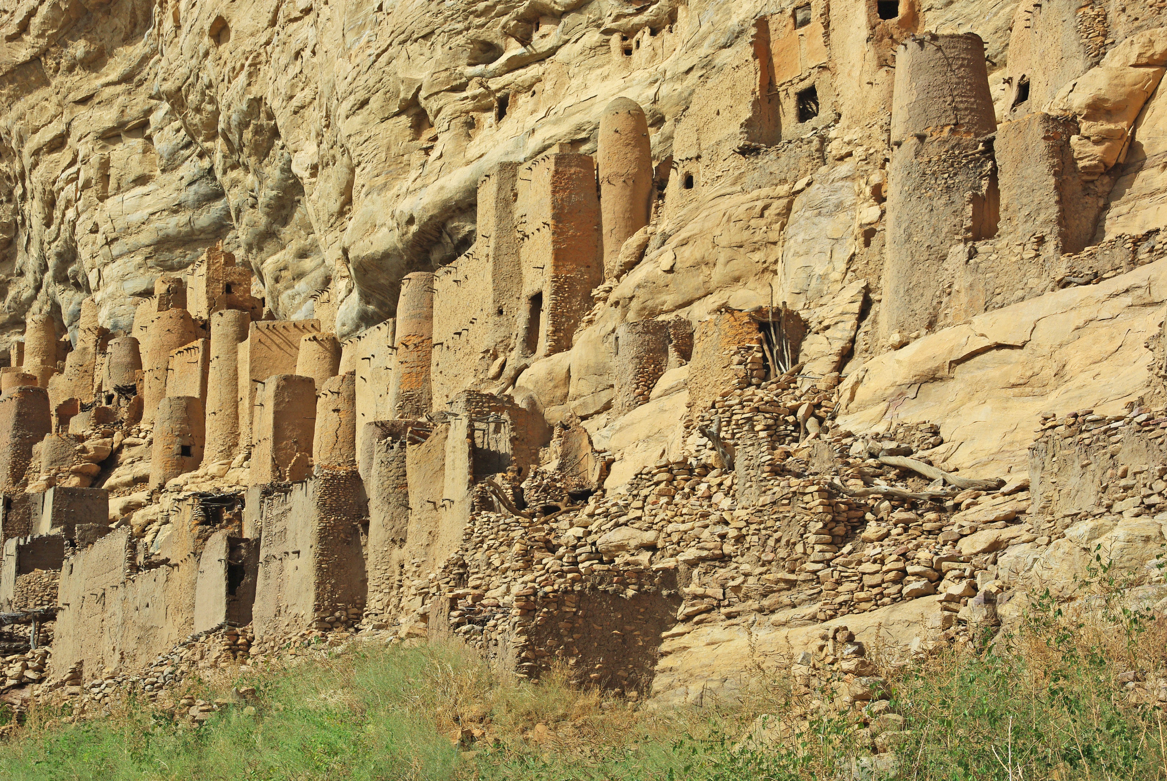 Dogon village at the bottom of the Bandiagara escarpment, Mali